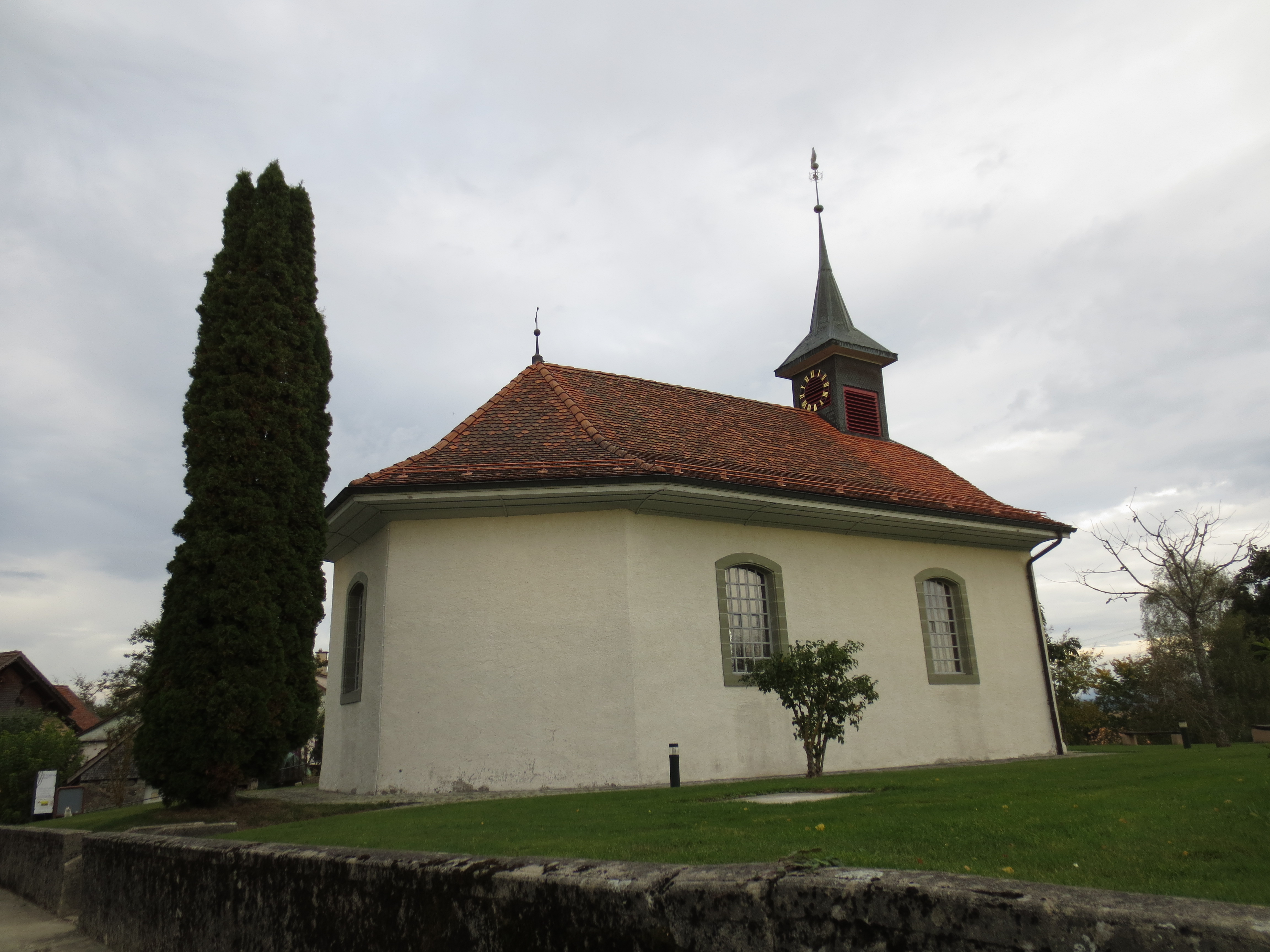 Ropraz church, Canton of Vaud, Switzerland